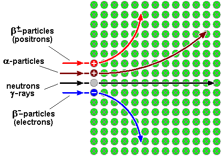 Deflection of nuclear radiation in a magnetic field